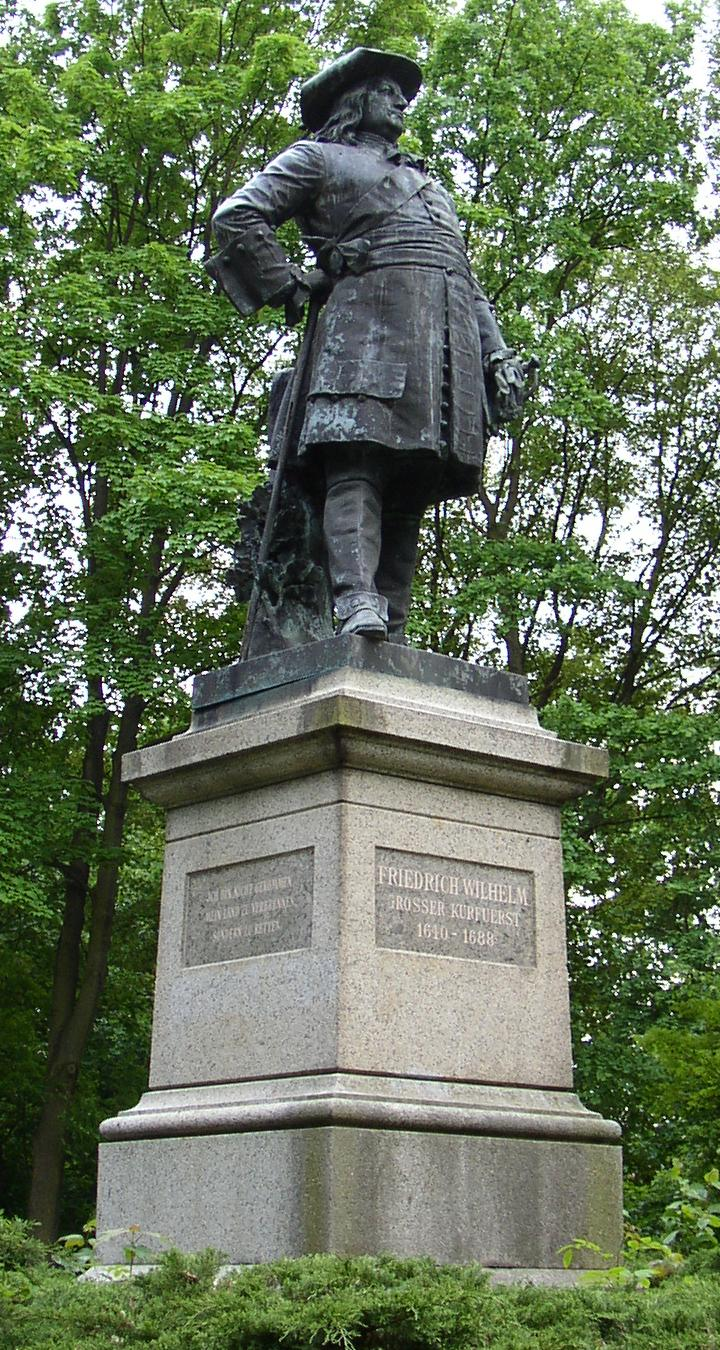 Monument to Friedrich Wilhelm I of Brandenburg in Fehrbellin, Brandenburg, sculpted by Fritz Schaper. A gift to the Fehrbelliners by Emperor Wilhelm II in 1902.